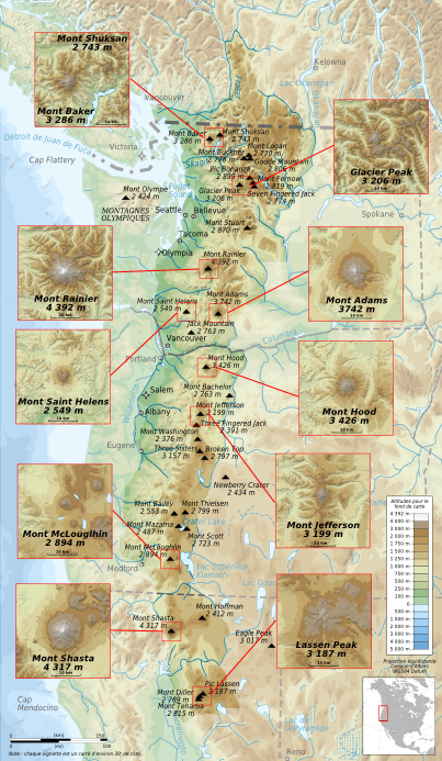 Topographic map in French of the Cascade Range